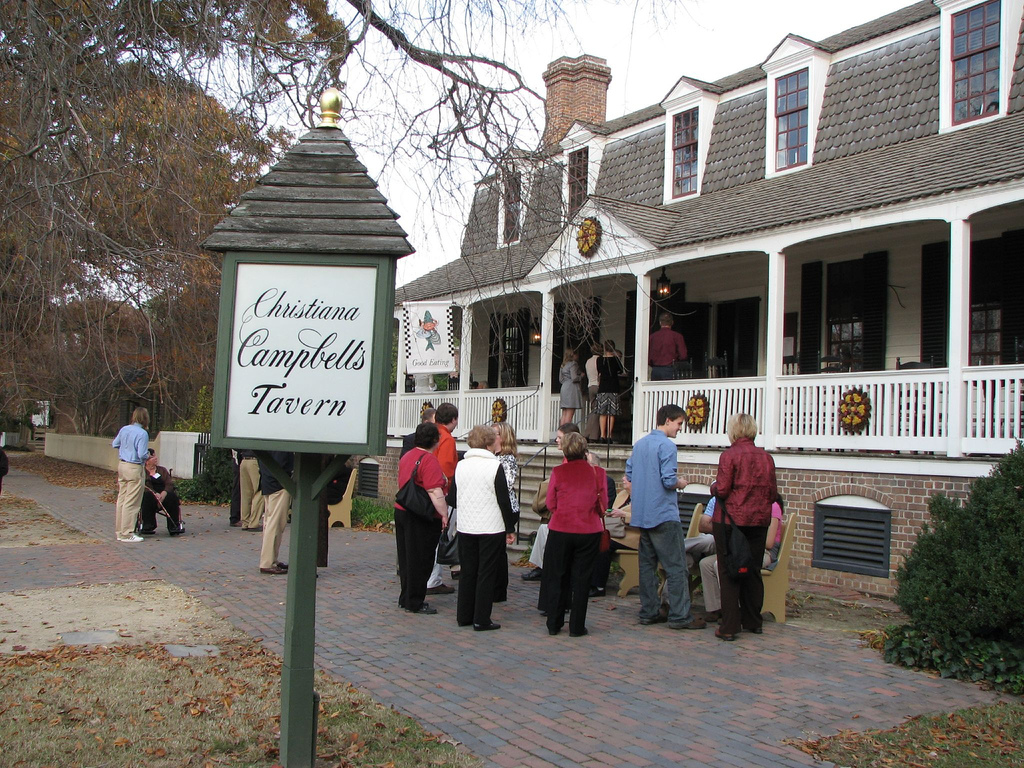 This is where we ate Thanksgiving dinner, and practically everyone in this picture is related to me somehow.